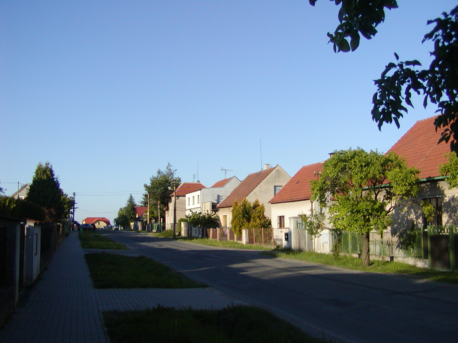 Netřeby, part of Hřebeč in Kladno District, CZE